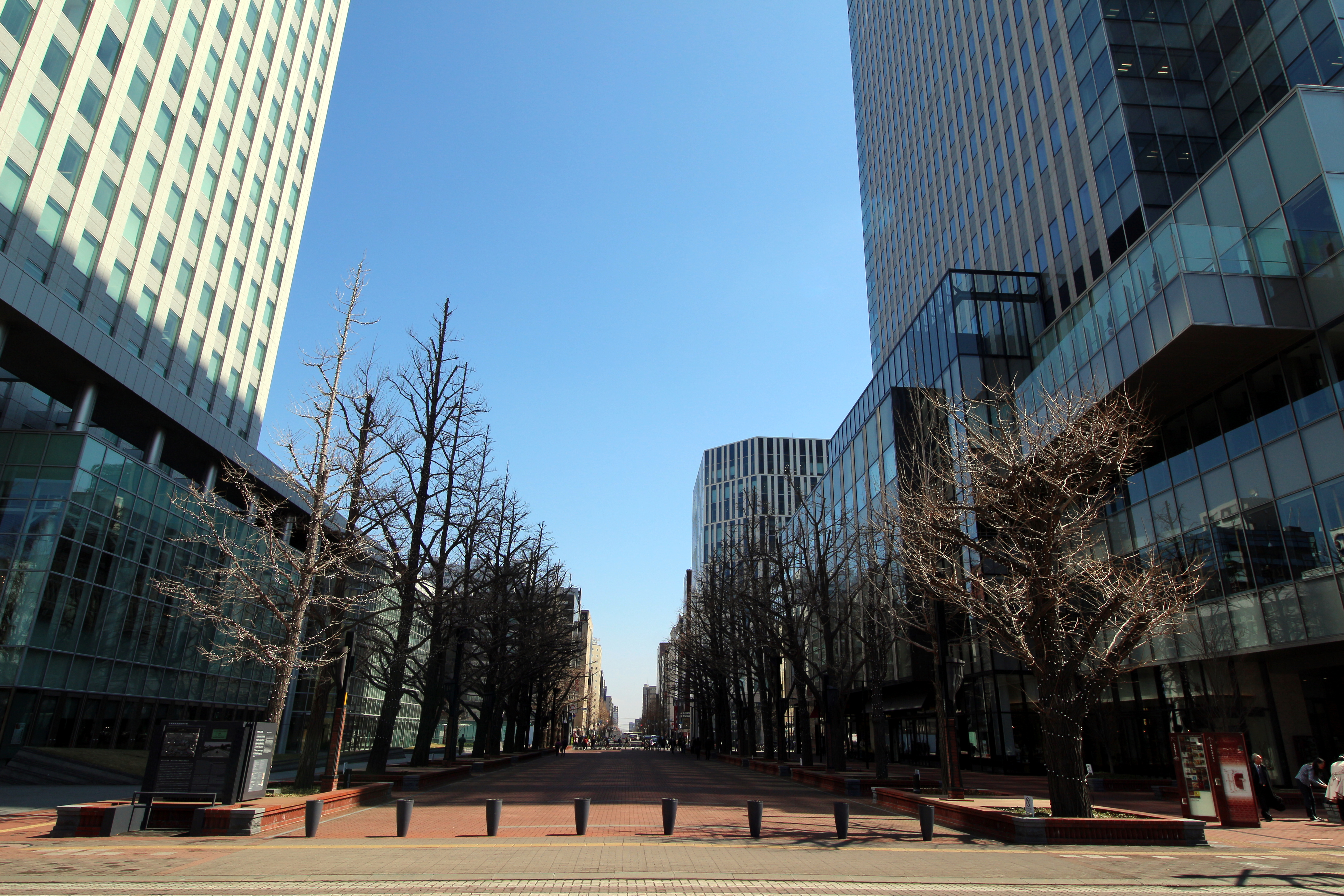 Kita 3-jo Plaza in Sapporo, Hokkaido. In the 19th century part of the esplanade that connected the governour's mansion with the city, now a pedestrian zone.